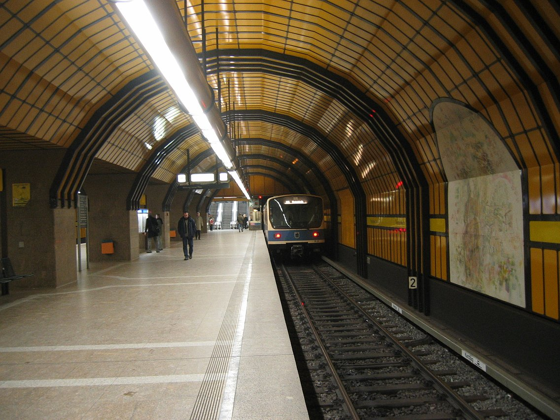 Munich subway station Theresienwiese (U4/5)